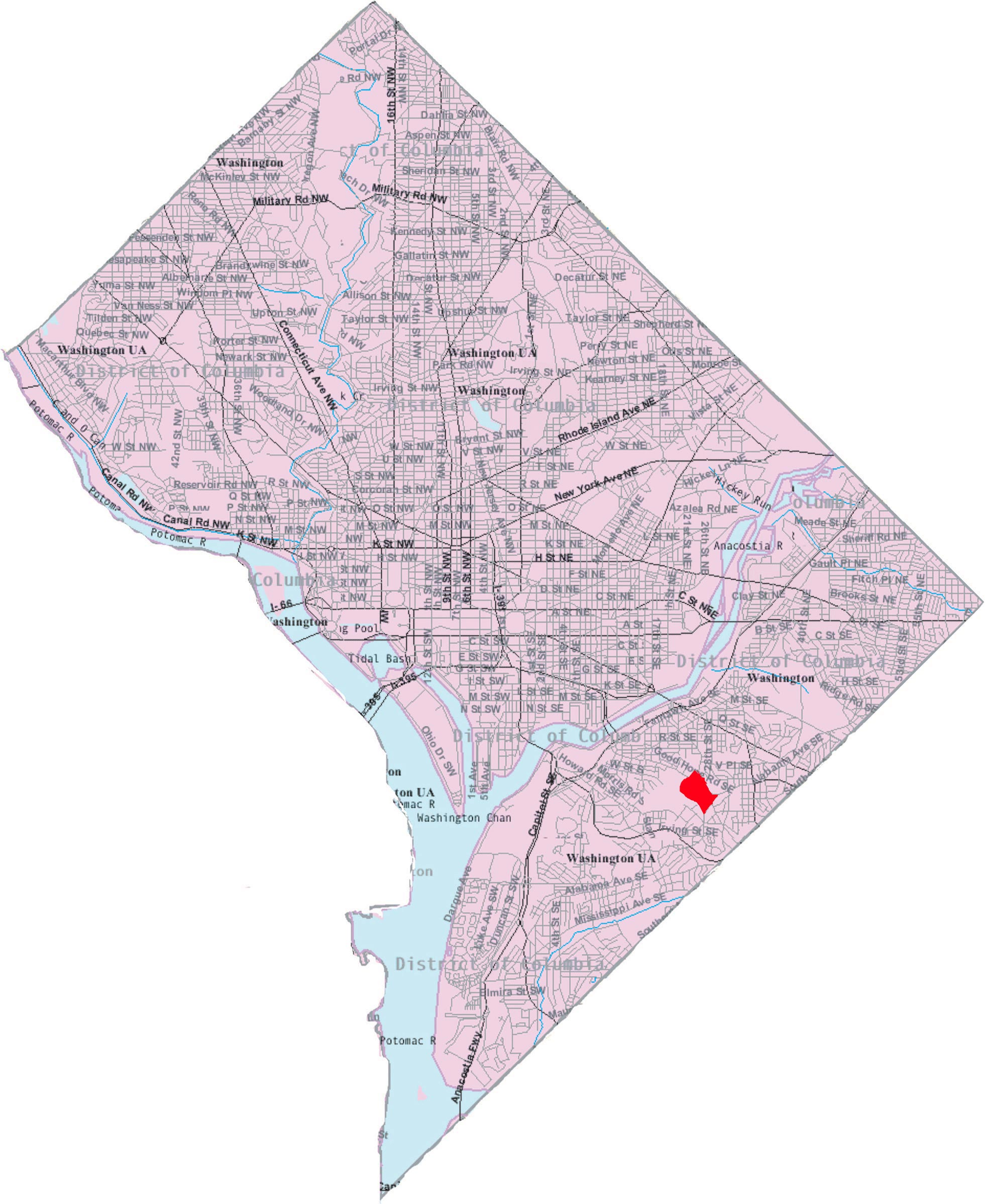 This image is a modified version of a self-generated reference map from the U.S. Census Bureau's American Factfinder at by Wikipedia user Msclguru.